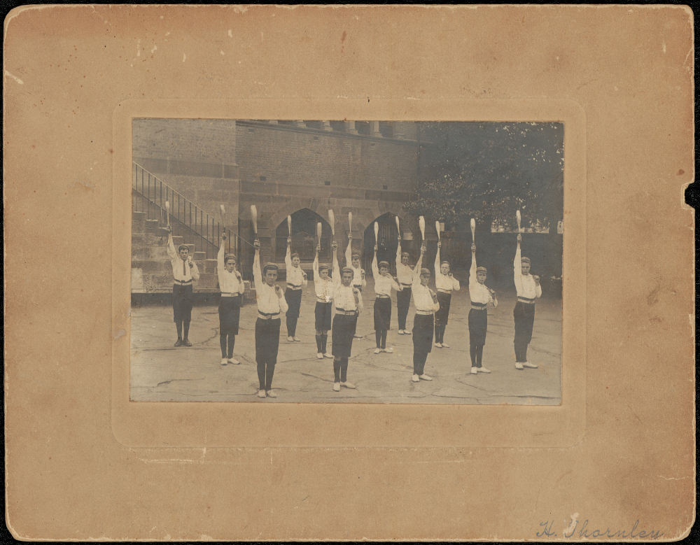 Title: Cleveland St Public School - Indian Club Drill Dated: c.31/12/1906 Digital ID: Series: Schools Photograph Collection Rights: No known copyright restrictions We'd love to if you use our photos/documents. Many other photos in our collection are available to view and browse on our website using